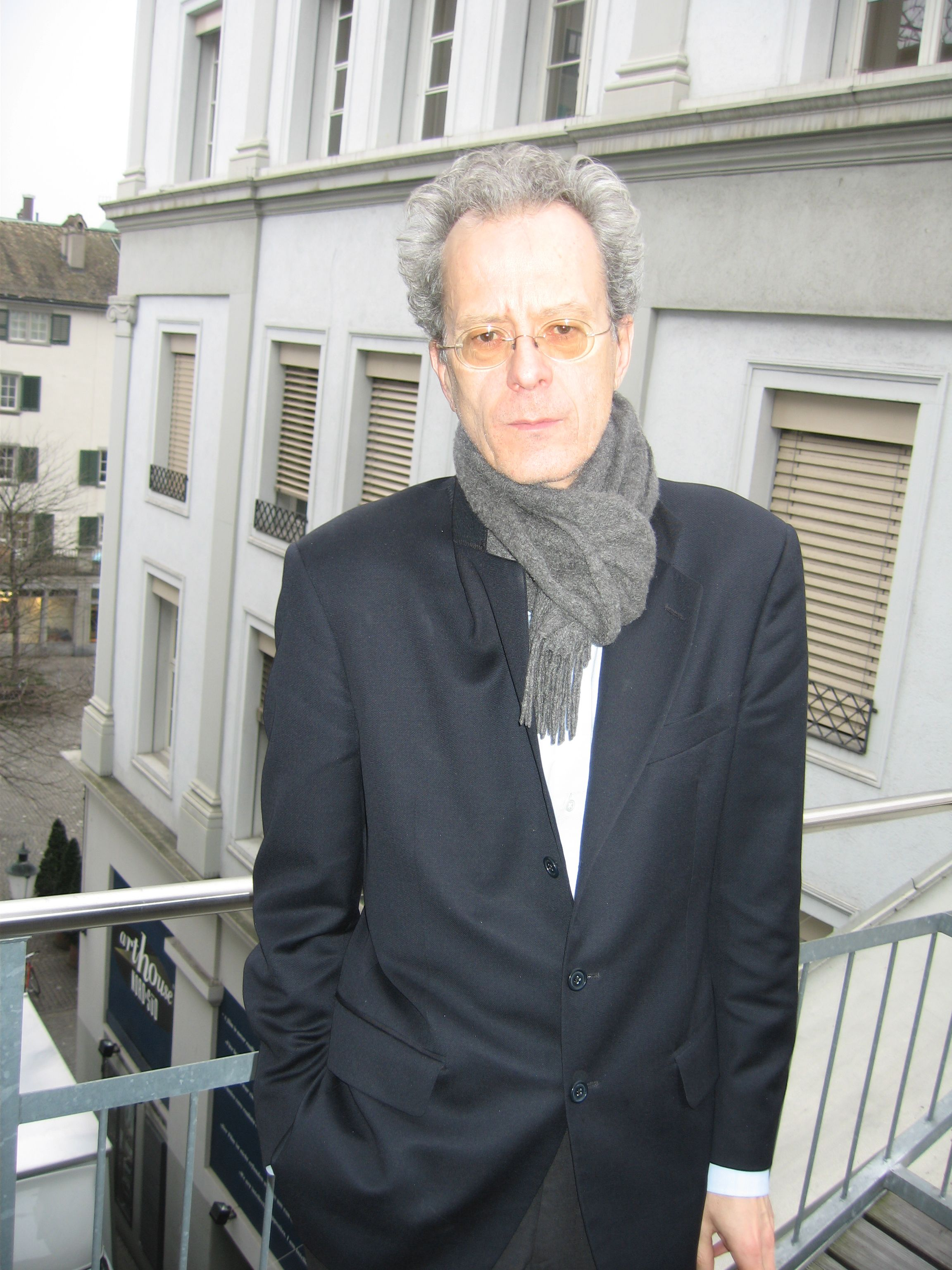 Publisher, art critic, curator and book lover Walter Keller in Zürich.